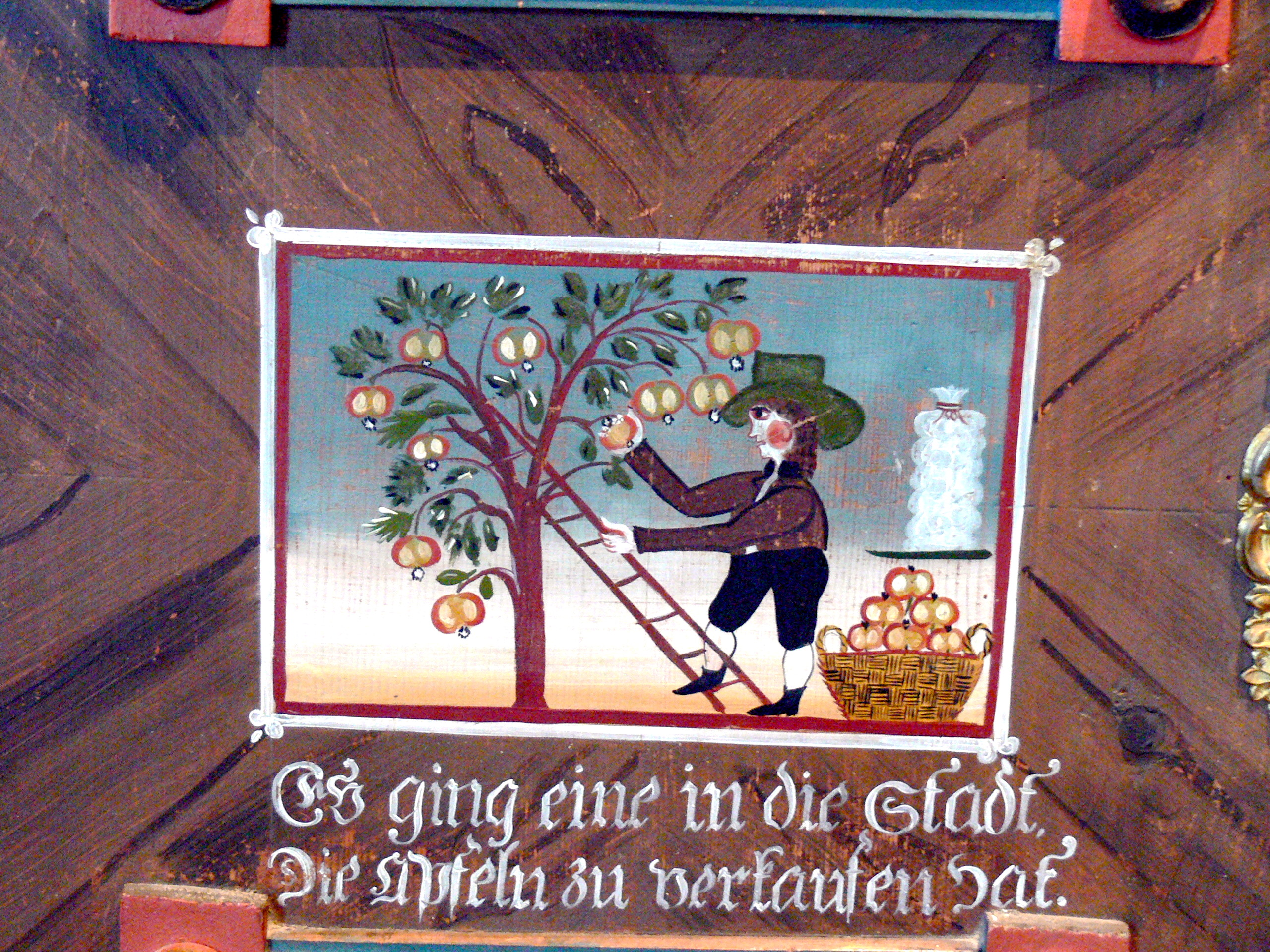 Trautenfels castle ( Styria ). Museum: Naive painting on a farmer´s wardrobe showing a woman collecting apples.